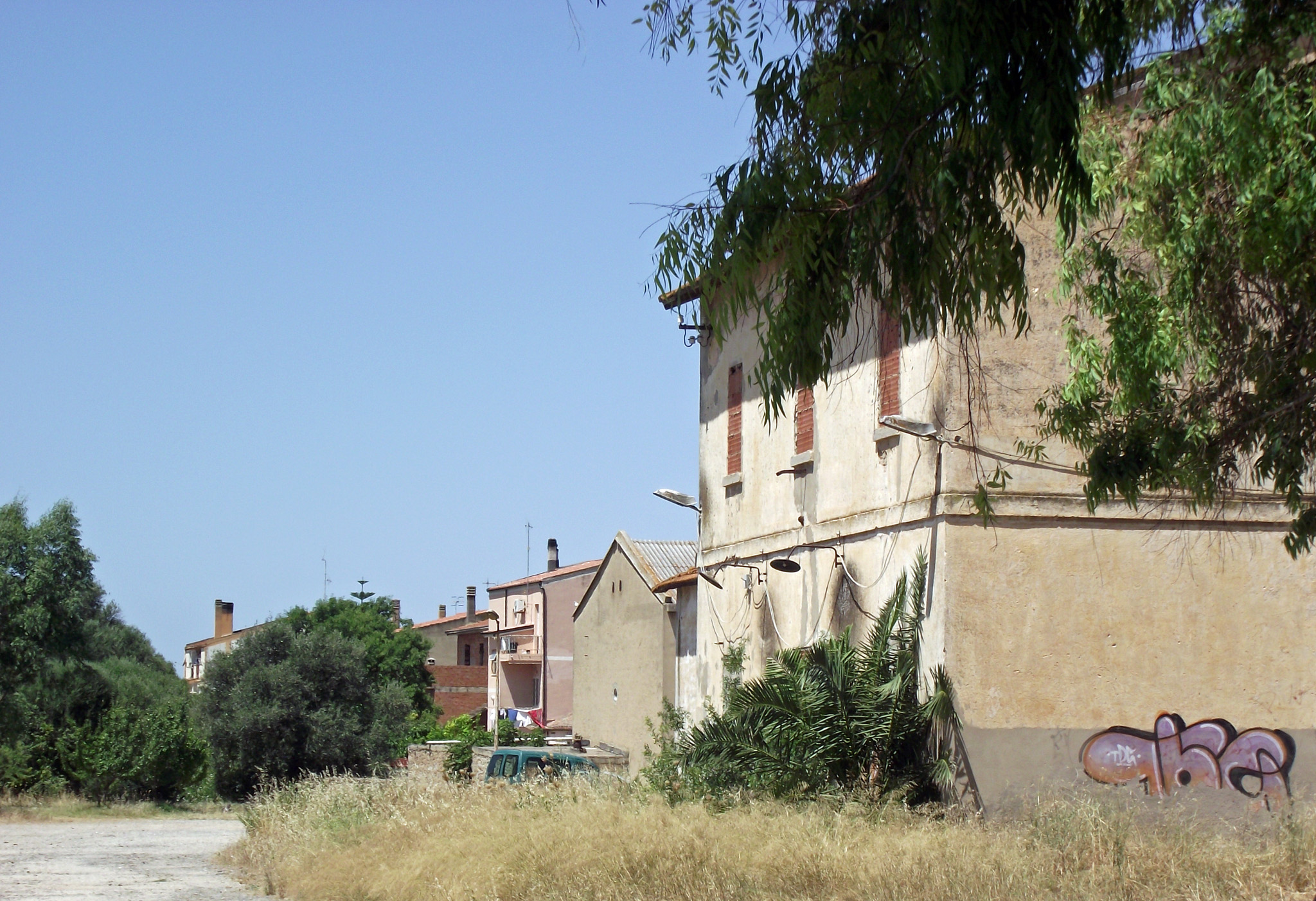 The former train station of Giba in Sardinia, Italy, along the dismantled railway Siliqua-San Giovanni Suergiu-Calasetta